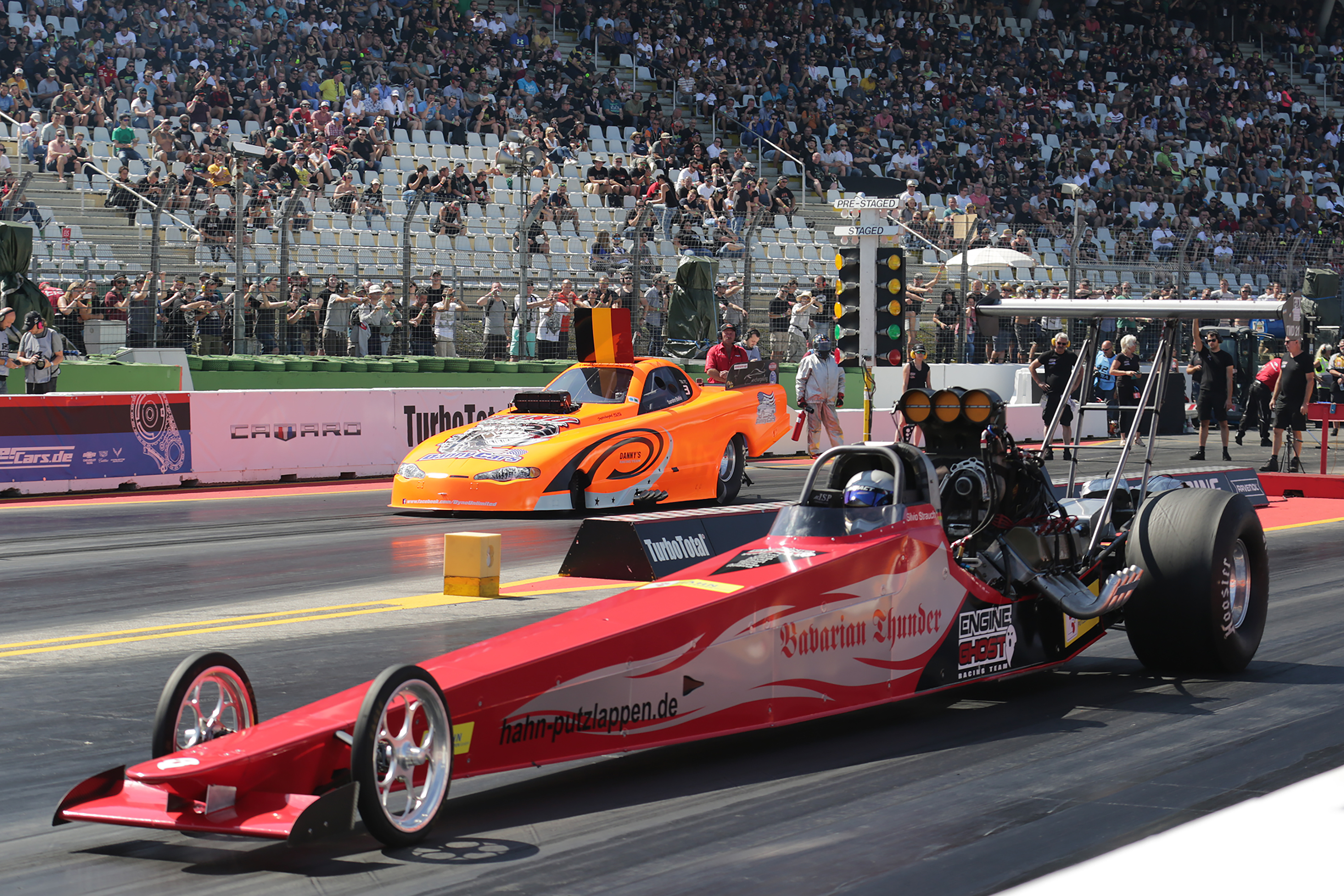 Top Methanol Dragster (Front) and Top Methanol Funny Car (Rear) - rolling back after Burn Out. Driver: TMD Silvio Strauch (GER) / TMFC Sandro Bellio (BEL)